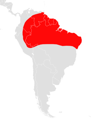 Distribution map of Artibeus concolor